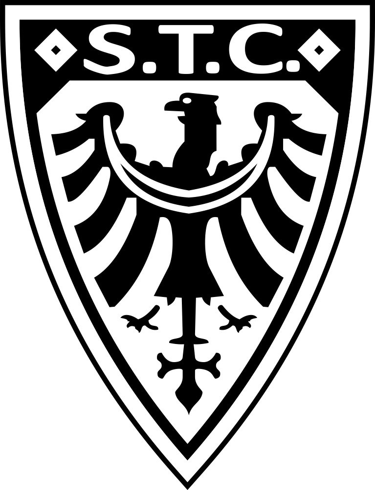 Logo of STC Görlitz, German football team.